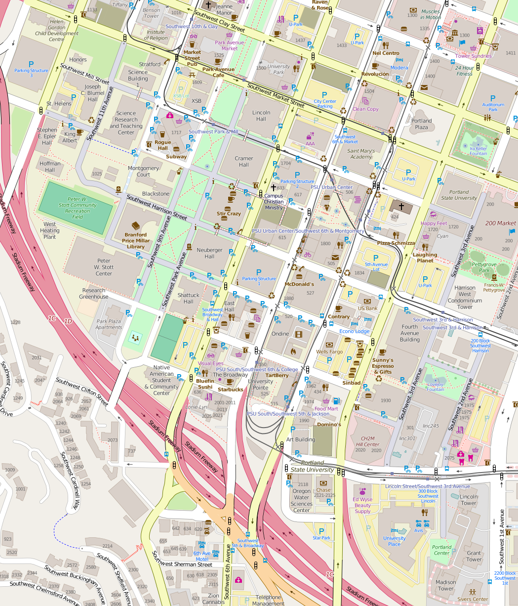 Map of the Portland State University campus, Portland Oregon. This map of Portland_State_University_Oregon was created from OpenStreetMap project data, collected by the community. This map may be incomplete, and may contain errors. Don't rely solely on it for navigation.